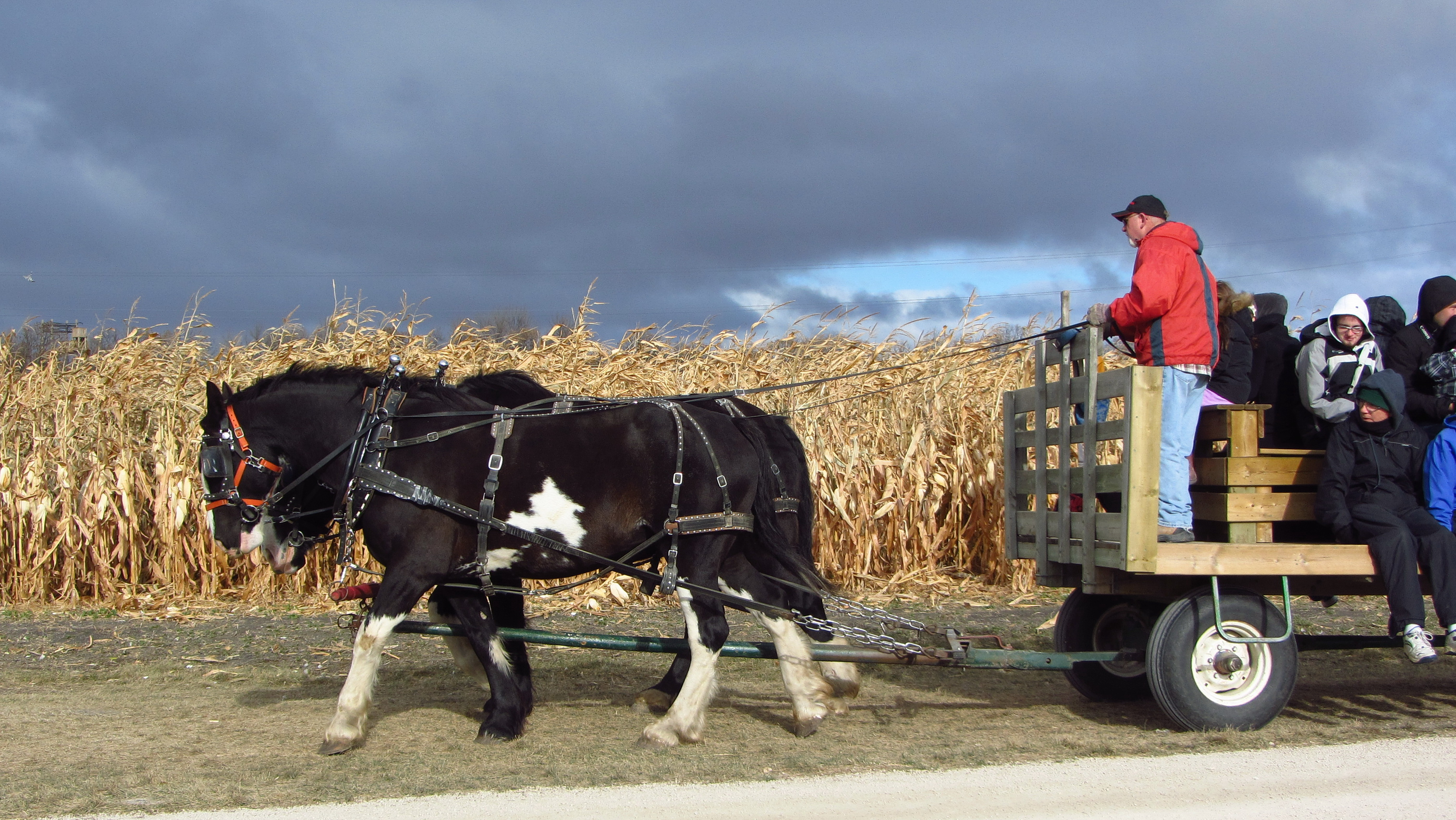 A Maze in Corn, 1351 Provincial Rd 200, St. Adolphe, Manitoba, Canada